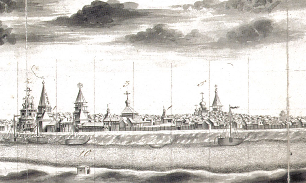 Irkutsk Kremlin in 1735